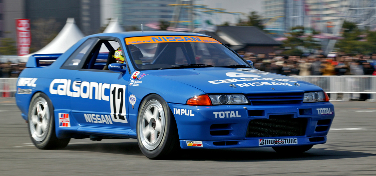 R32 Calsonic Skyline in exhibition